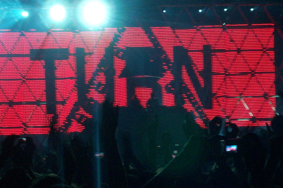 Daft Punk live at Bercy, Paris